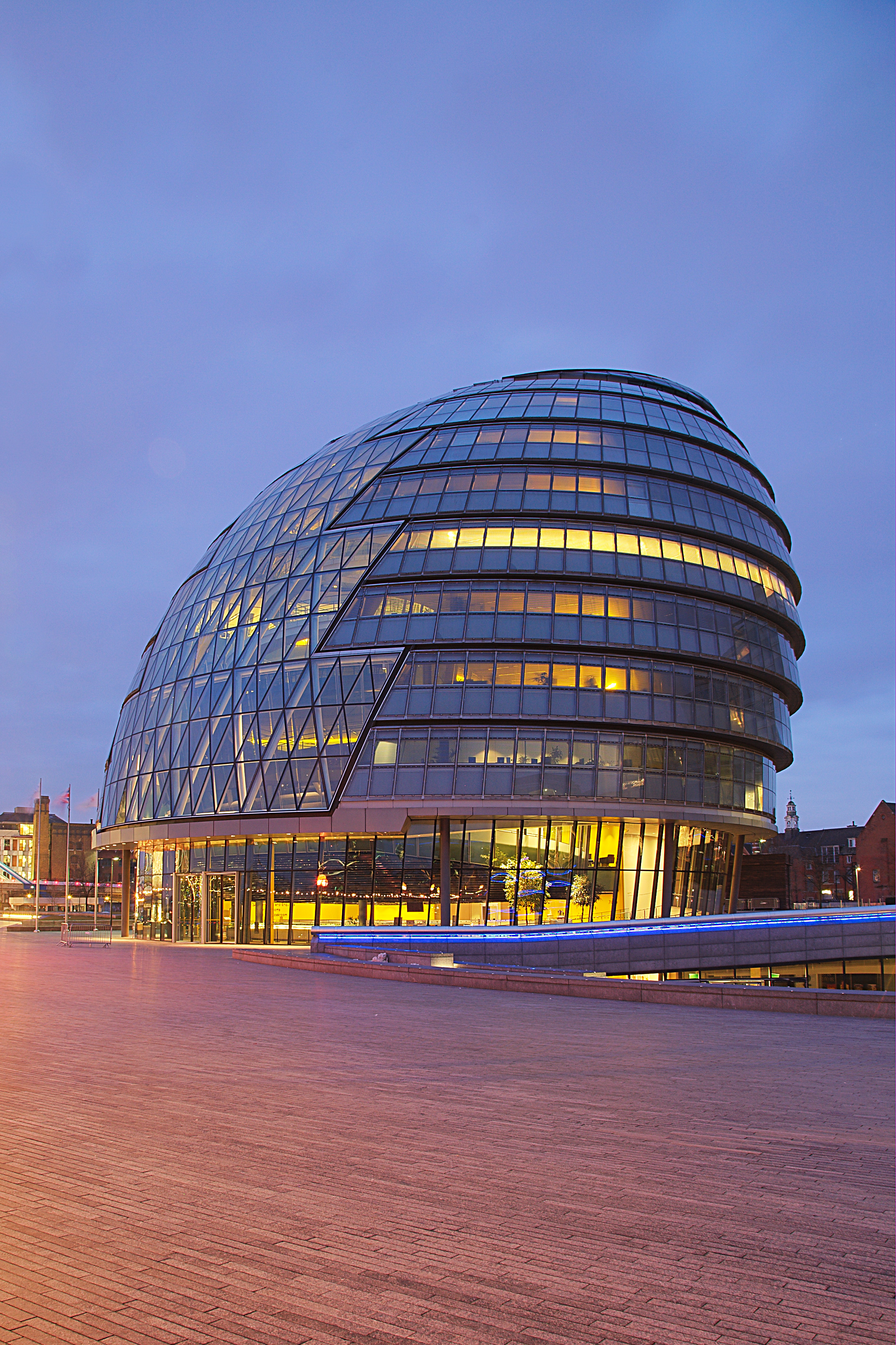 City hall in London at dawn